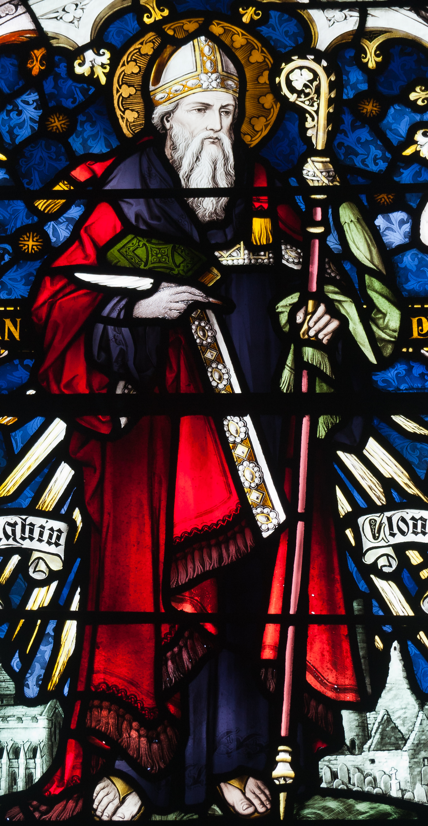 Detail of a stained glass window depicting Saint Kieran.